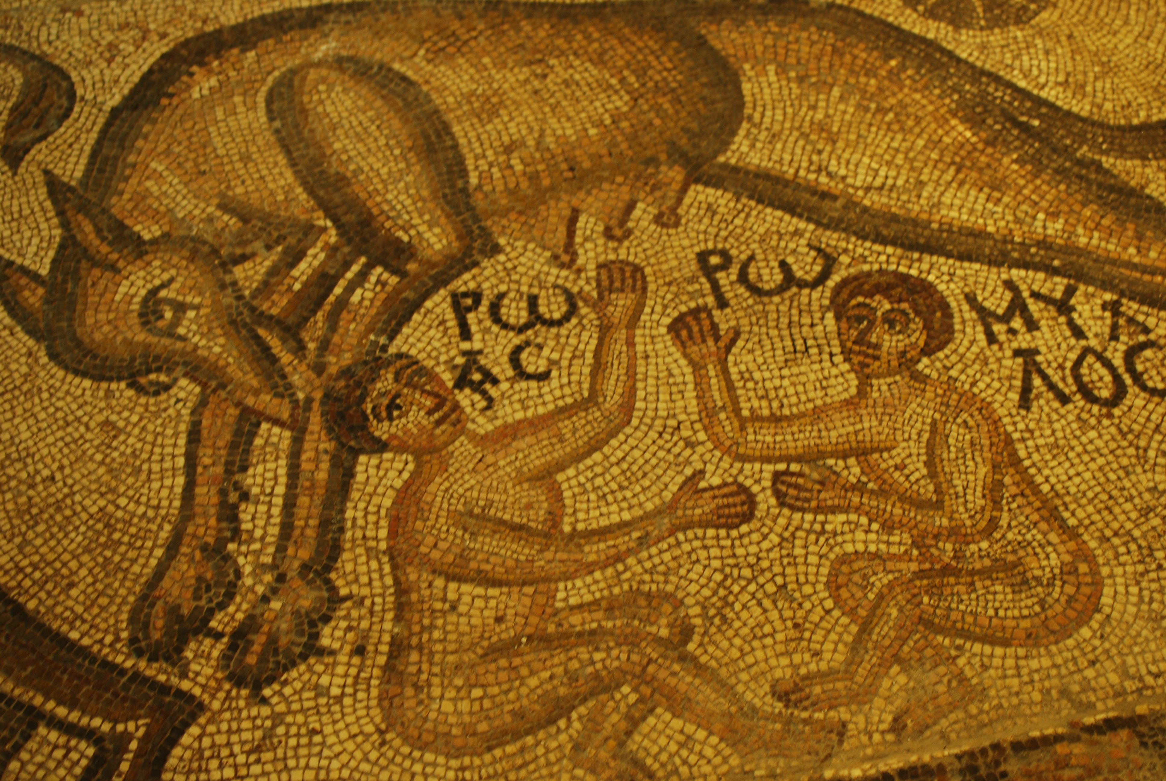 Archaeological Museum, detail of a mosaic with Romolus and Remus, dated at 510 A.D., Ma'arrat al-Numan in 2010